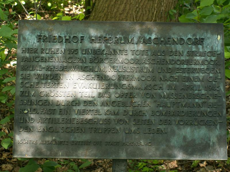 Cemetery "Friedhof Herbrum-Aschendorf", this is NOT the close-by "Kamp Aschendorfermoor"!